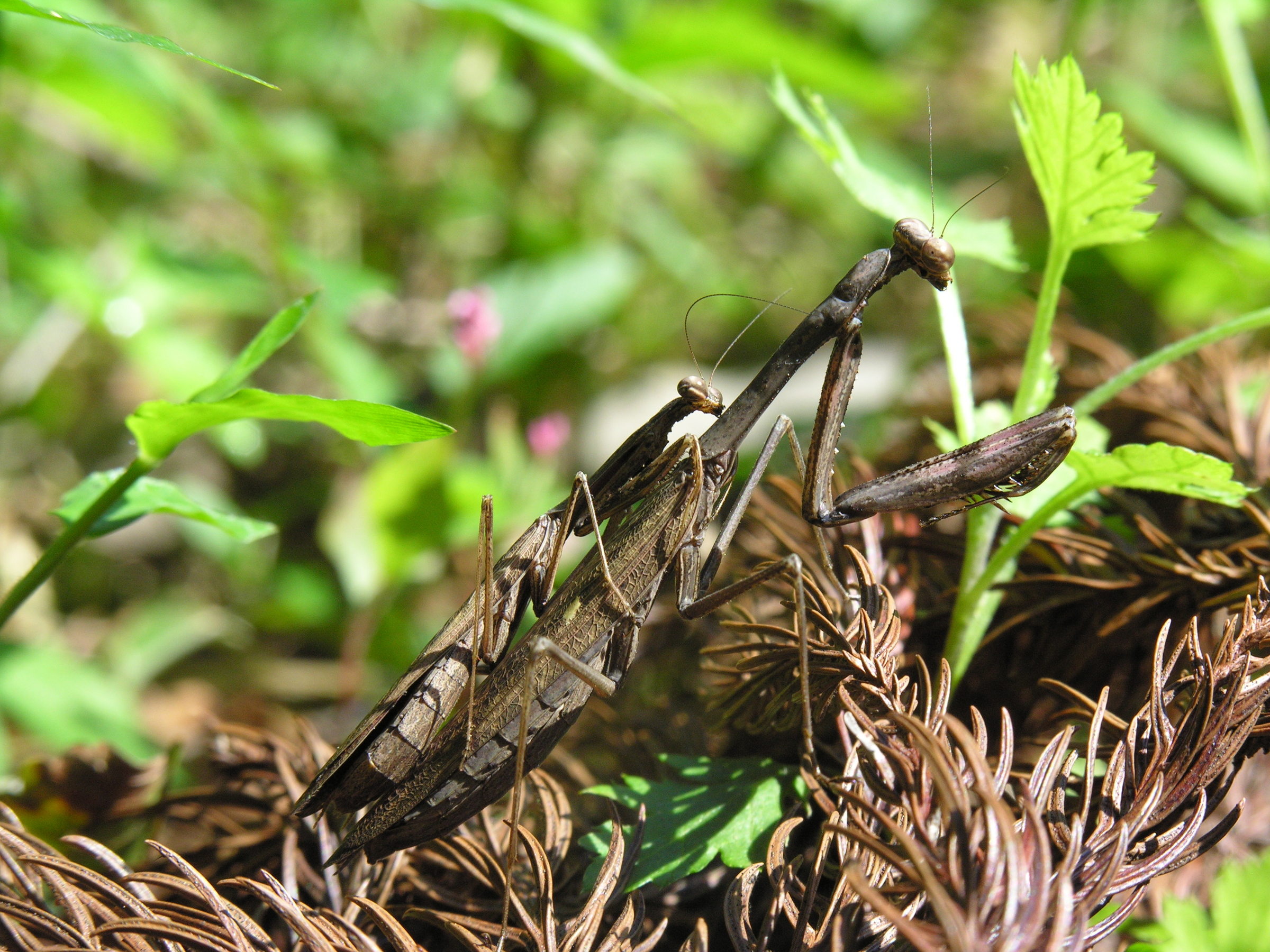 pair of Statilia maculata